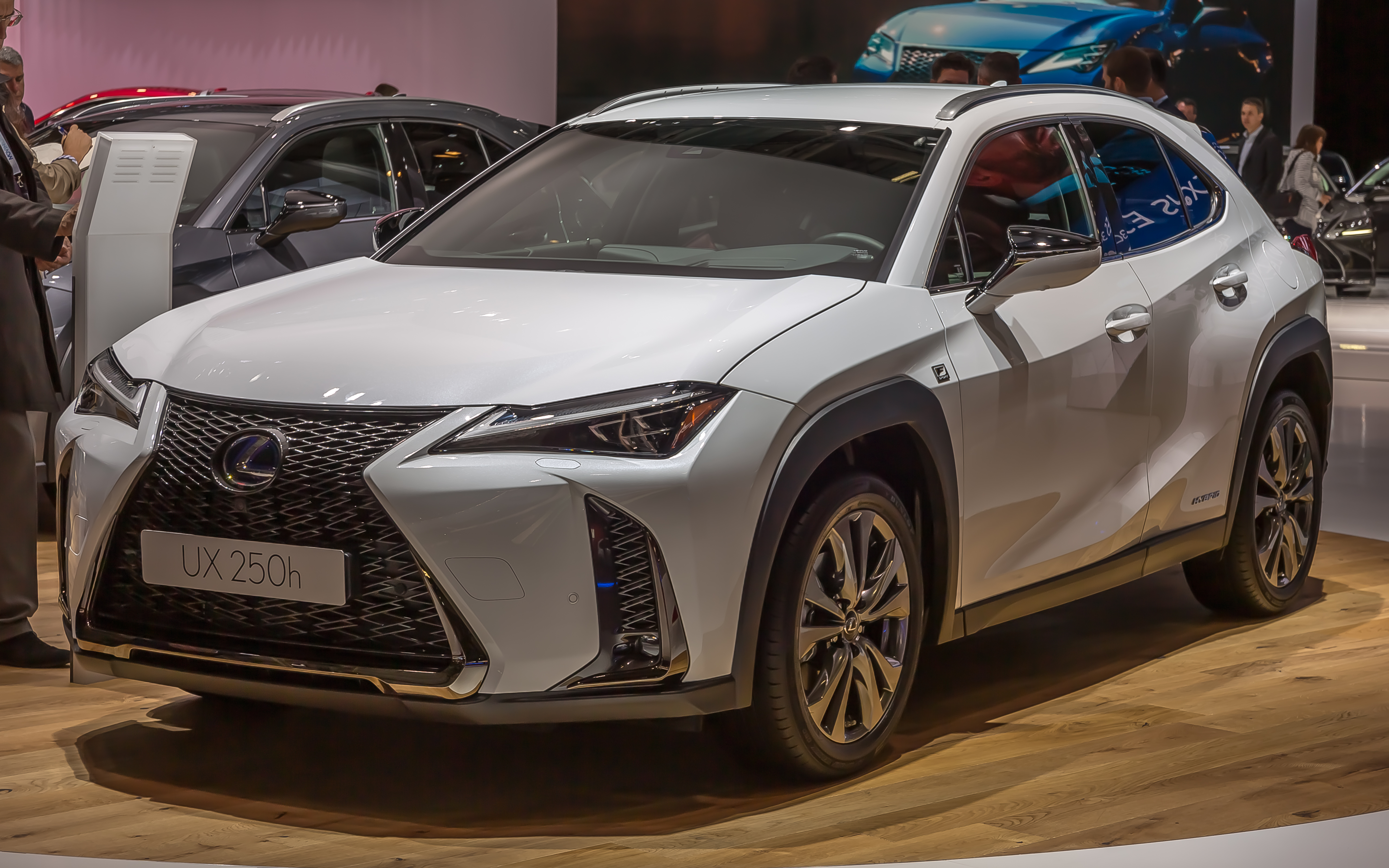 Lexus UX 250h F-Sport, Mondial Paris Motor Show 2018